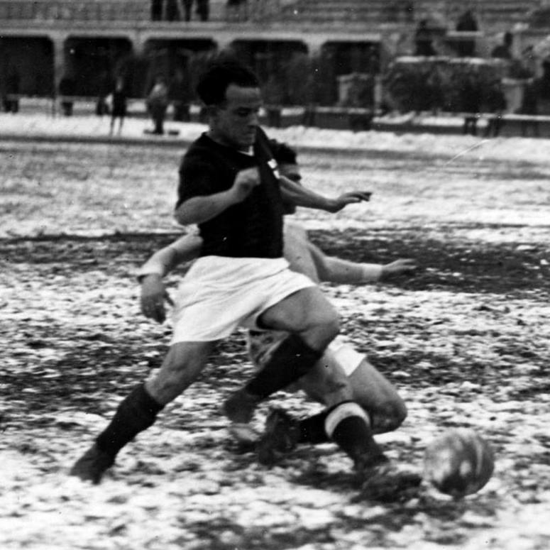 Milan (Italy), San Siro, January 25, 1933. Milan F.C. — S.S. Lazio 0-0, Matchday 14 of the Italian Championship 1932–33 Serie A. Milan's forward Mario Magnozzi in action.